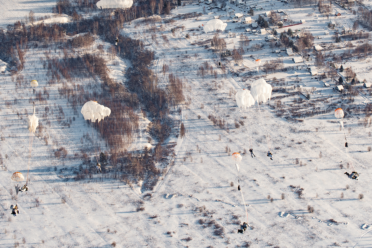 Russian 98th Guards Airborne Division.